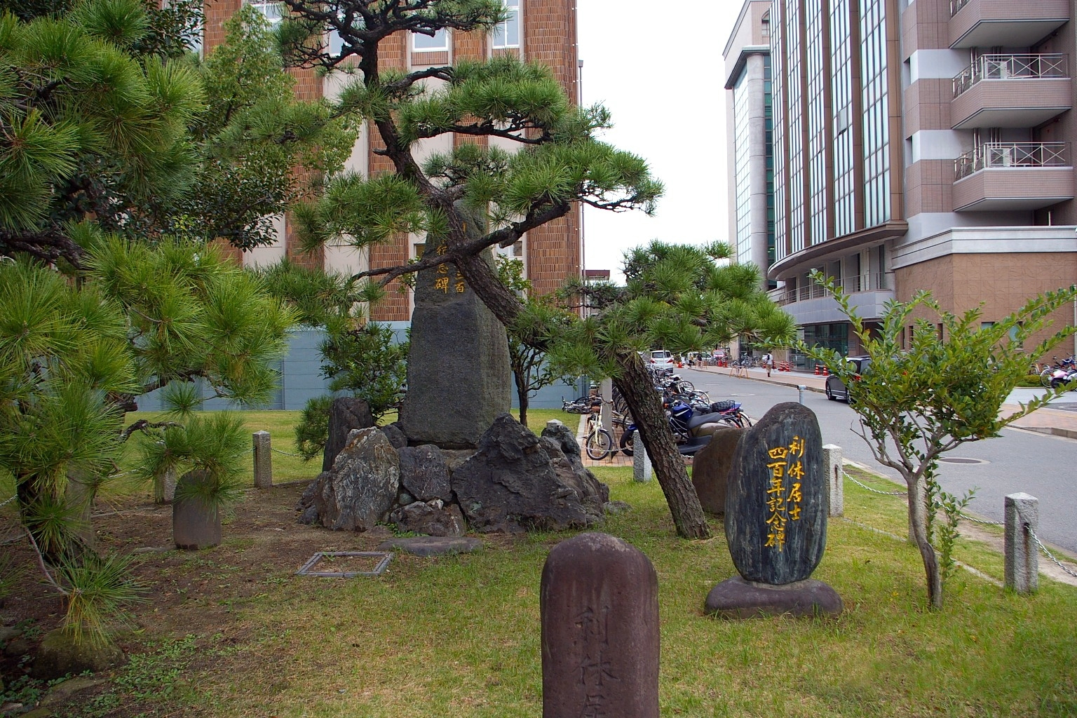 Sen no Rikyu tencha no ato or The site where Rikyu held tea, memorial stone commemorating how Rikyuserved served tea outside by hanging a tea kettle from a pine tree (kamakake no matsu) in what is now the campus of Kyushu University Medical School (Hospital Campus), Fukuoka City, Japan